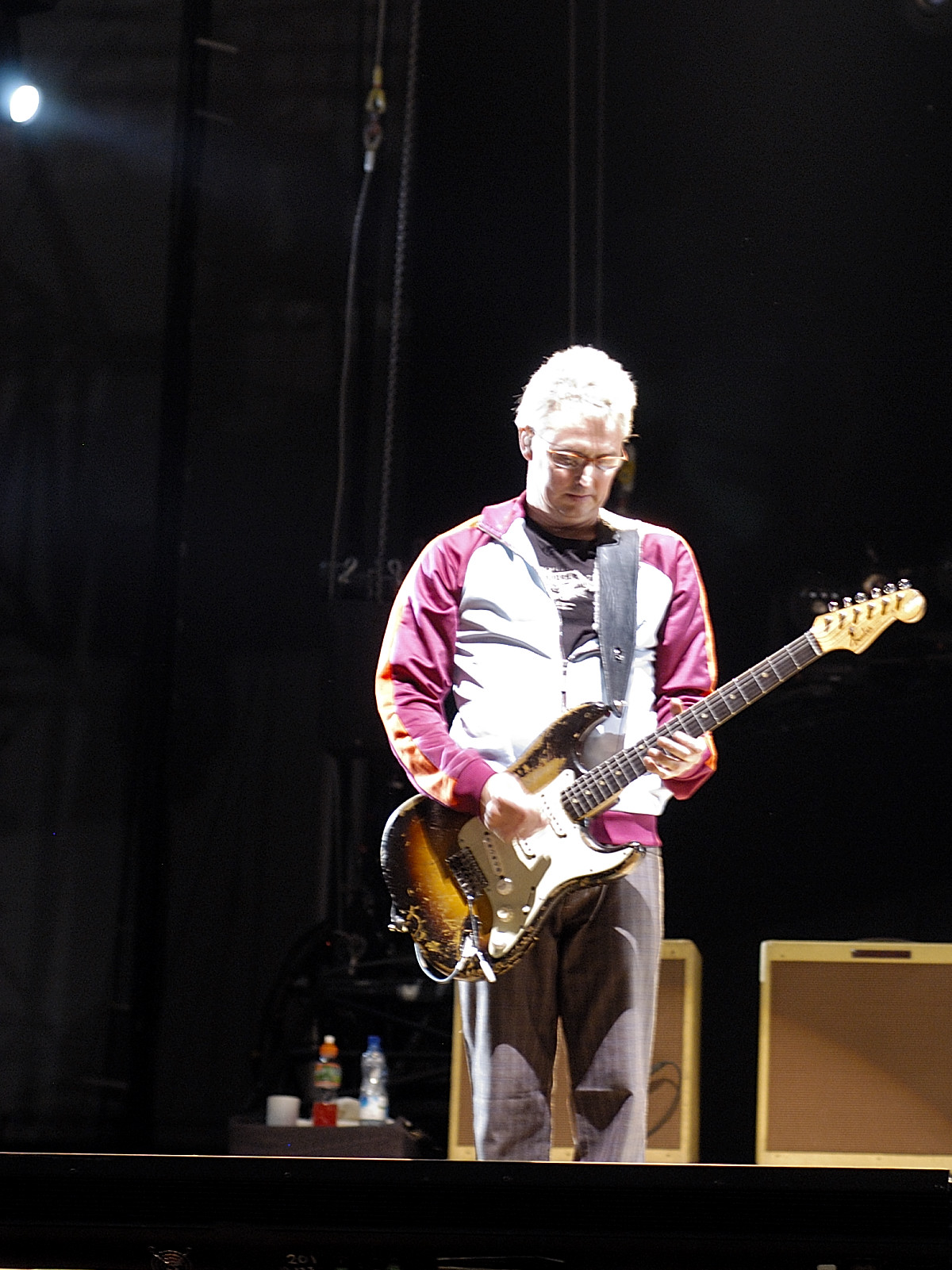 Mike McCready from Pearl Jam on September 23, 2006, Berlin, Germany.